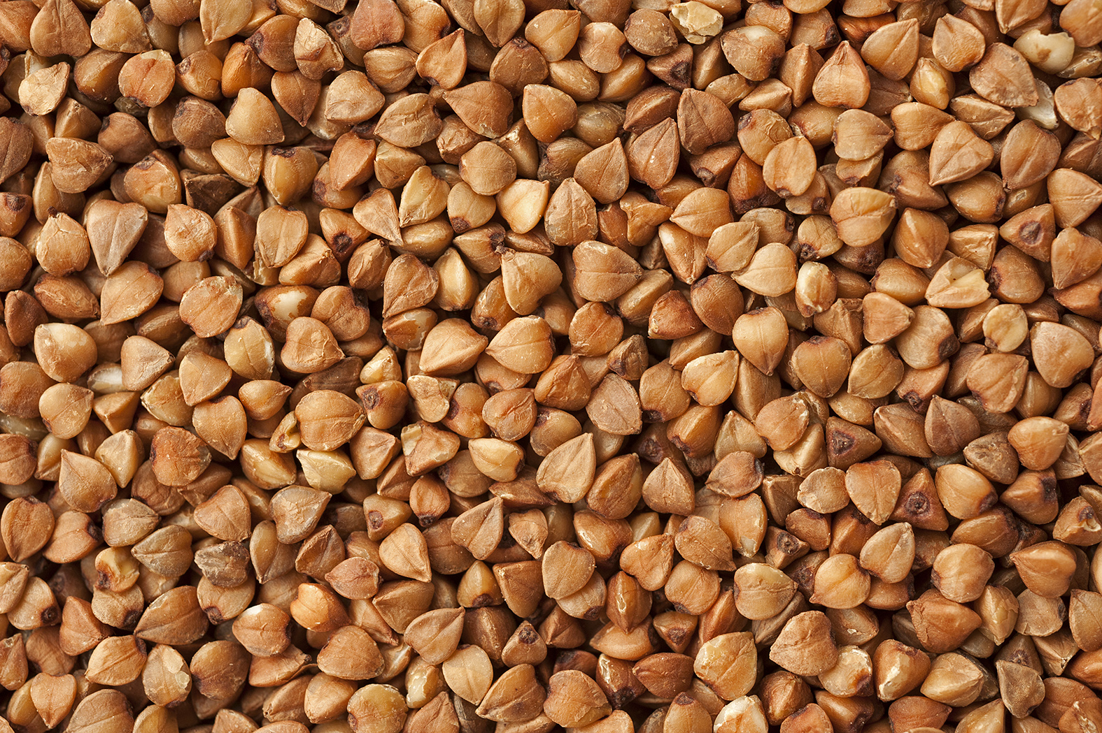 Buckwheat slightly roasted.